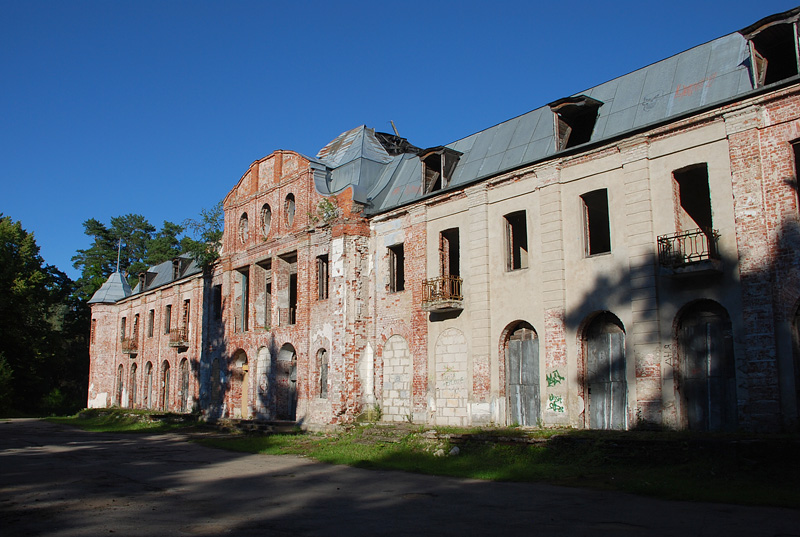 Narva-Jõesuu resort hall